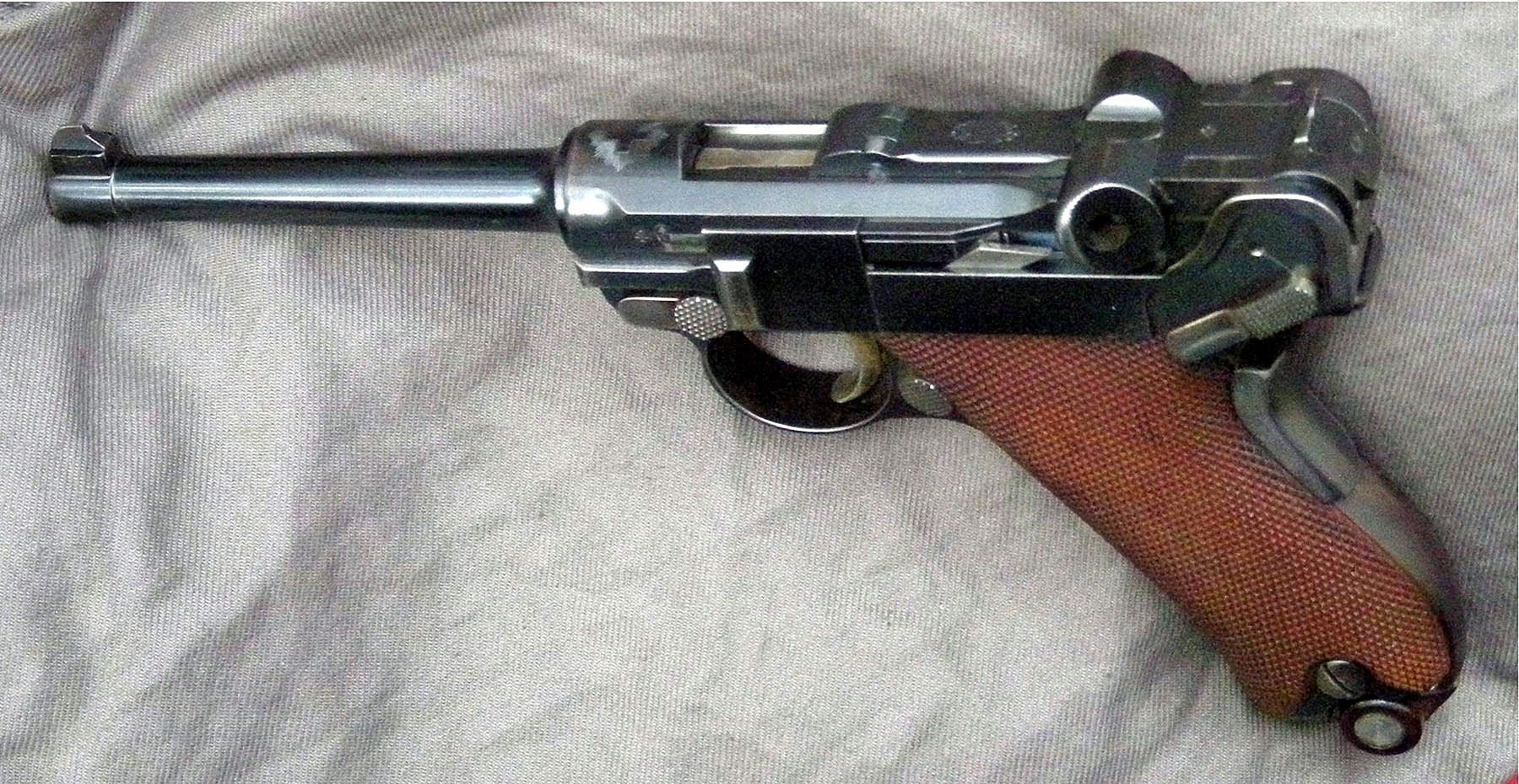 Parabellum 00 pistol. These Swiss military service pistols were introduced in 1900 and chambered in 7.65×21mm Parabellum. The engraving of the Swiss cross "in splendor" (rather than as a coat of arms) indicates that this pistol was built before 1909.[1]